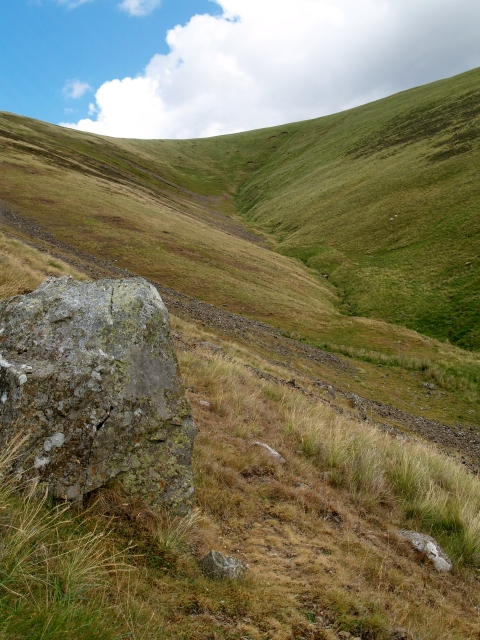 Headwater of the Harcus Burn. After a hot dry spell, the grass is looking browned and the burn is almost dry.